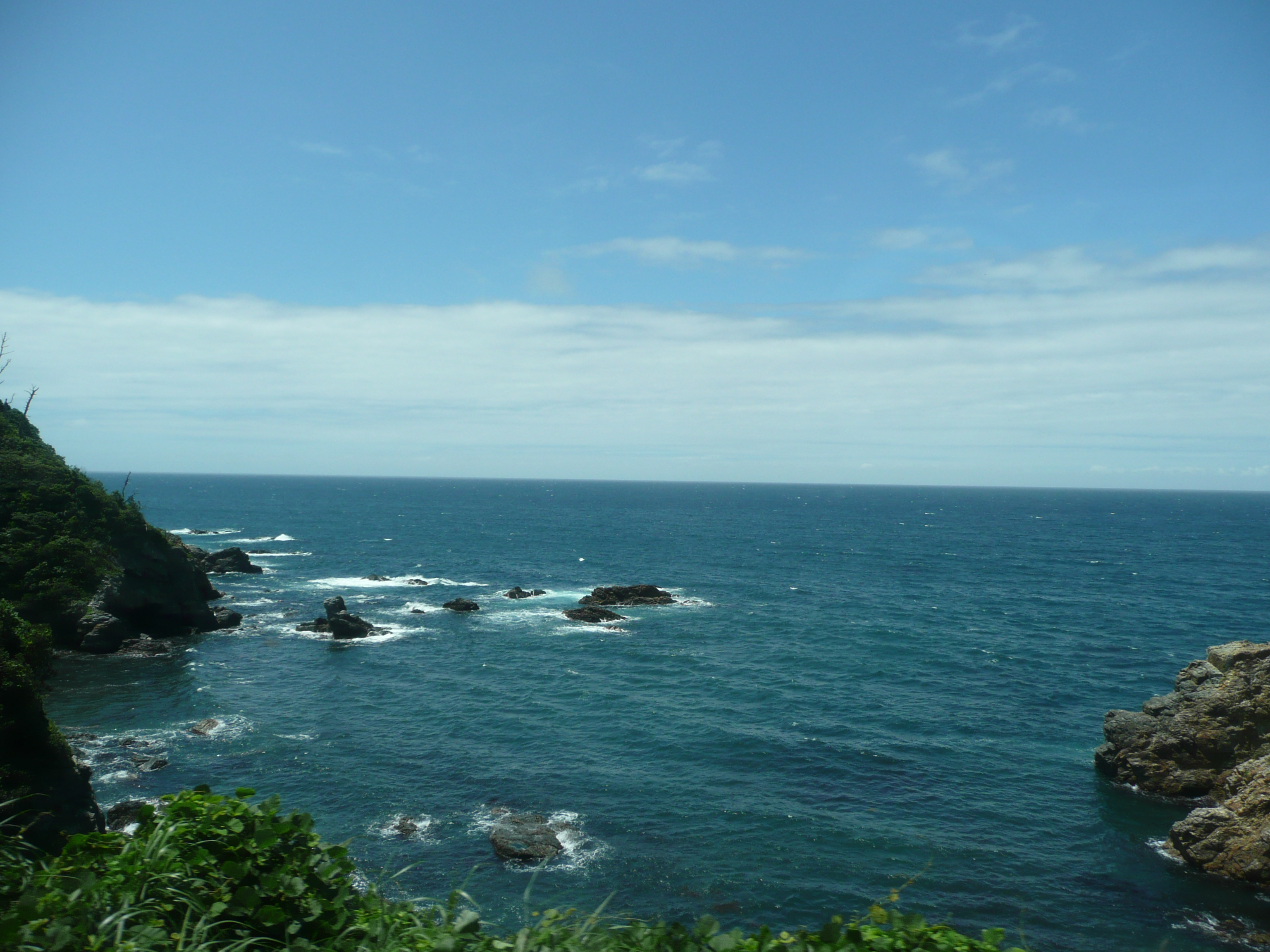 島根県浜田市で撮影